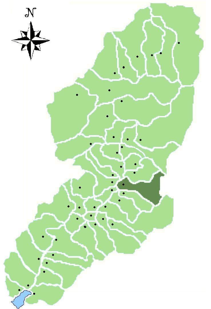 Map of the Comune di Ceto, Valle Camonica